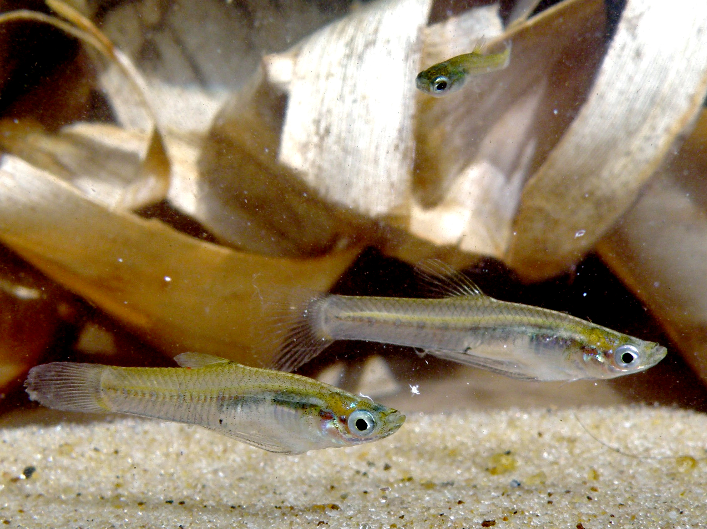 Ten spotted live-bearer -male- (Cnesterodon decemmaculatus).